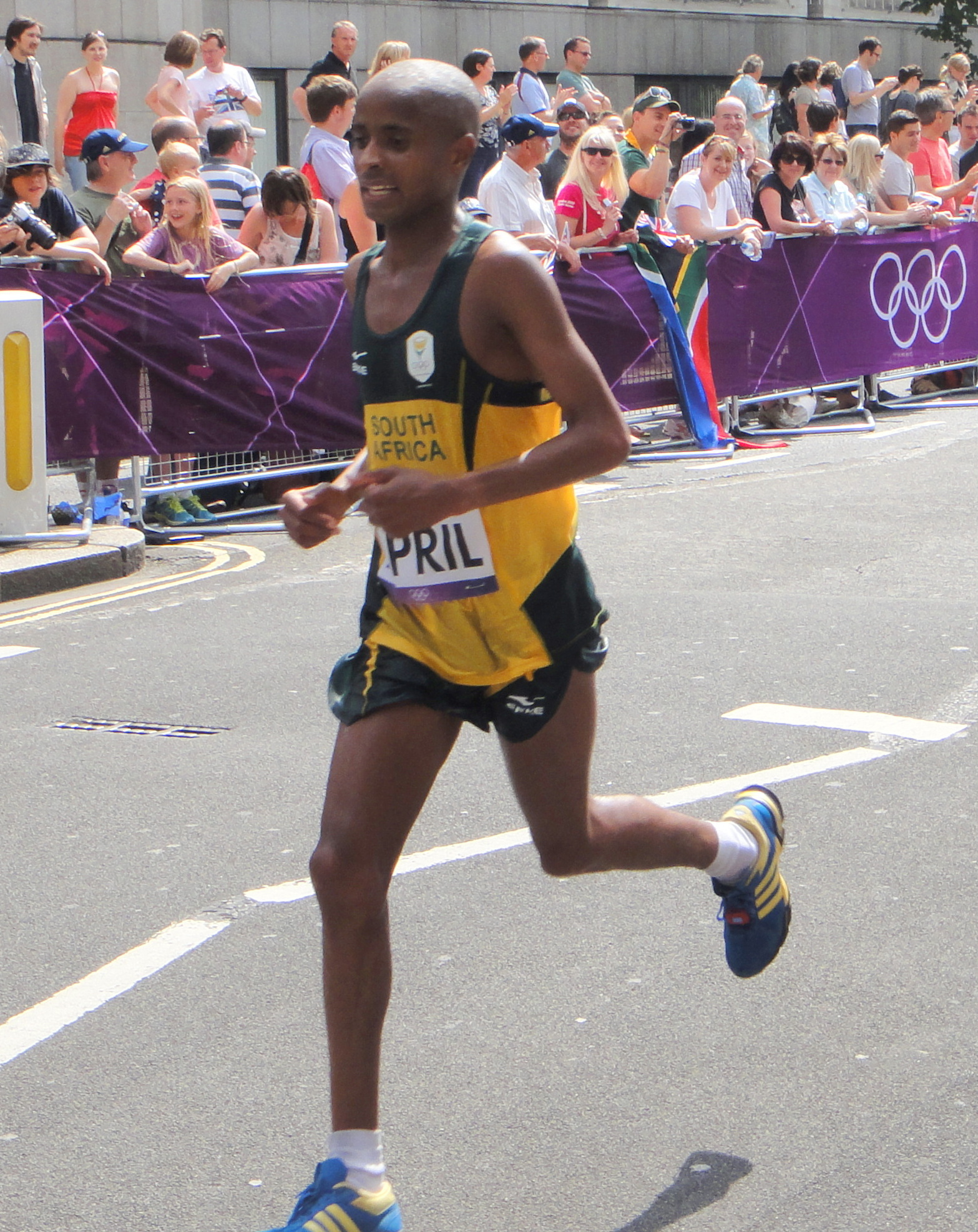 Lusapho April (South Africa) - London 2012 Men's Marathon